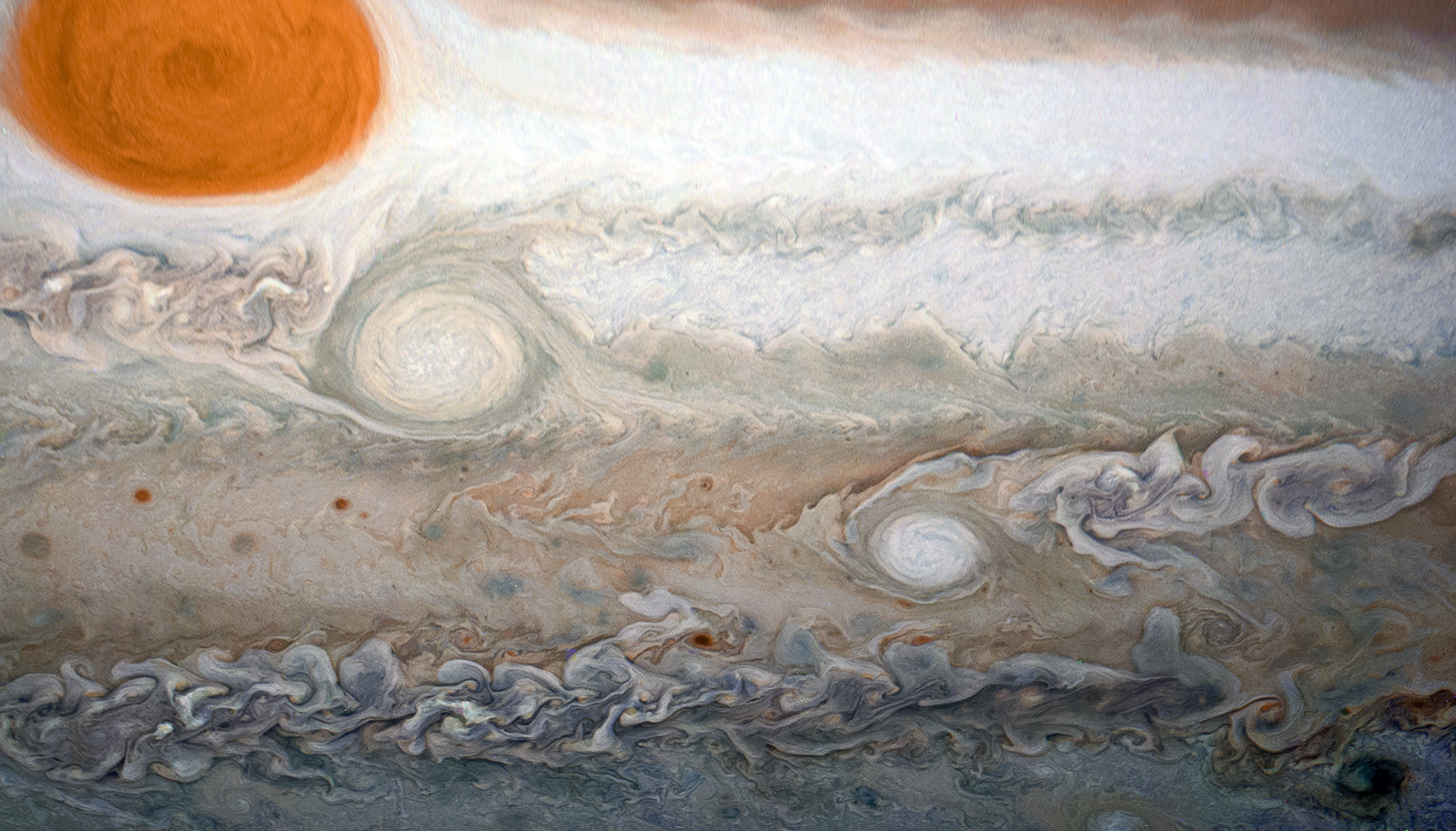 JNCE_2018355_17C00036_V01 Map projected. NASA/JPL-Caltech/SwRI/MSSS/Kevin M. Gill